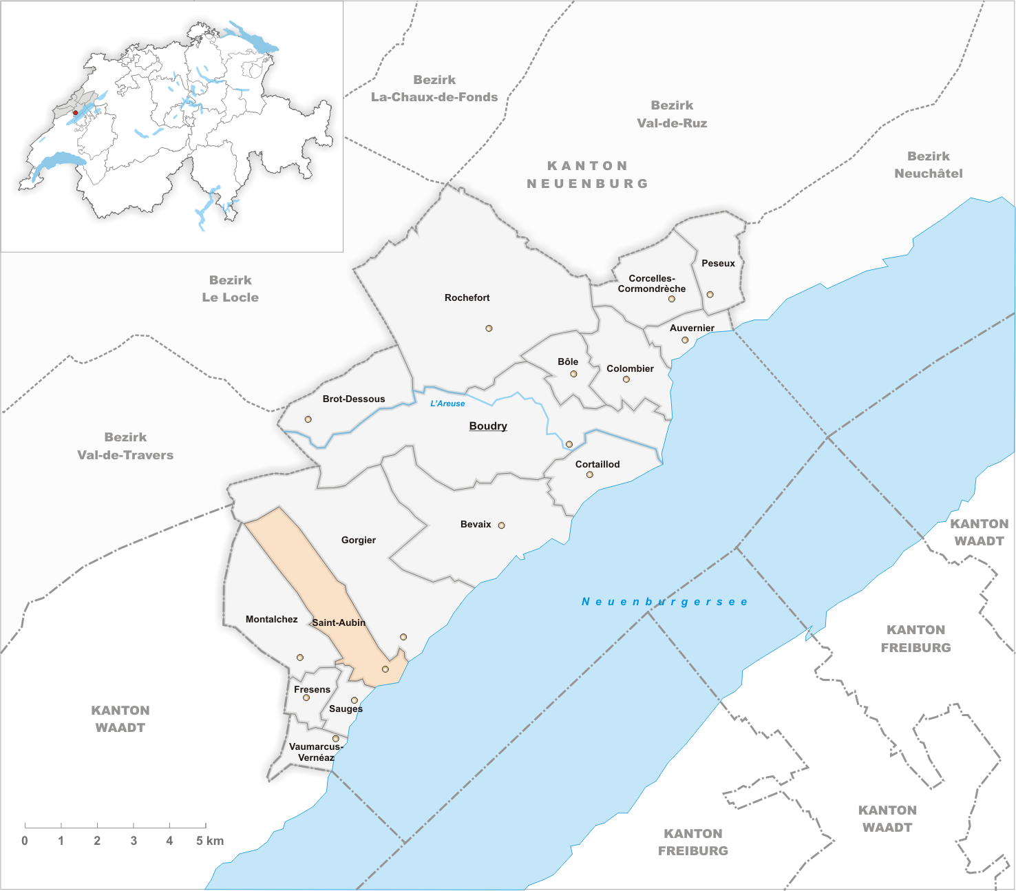 Municipality Saint-Aubin Artist: Tschubby